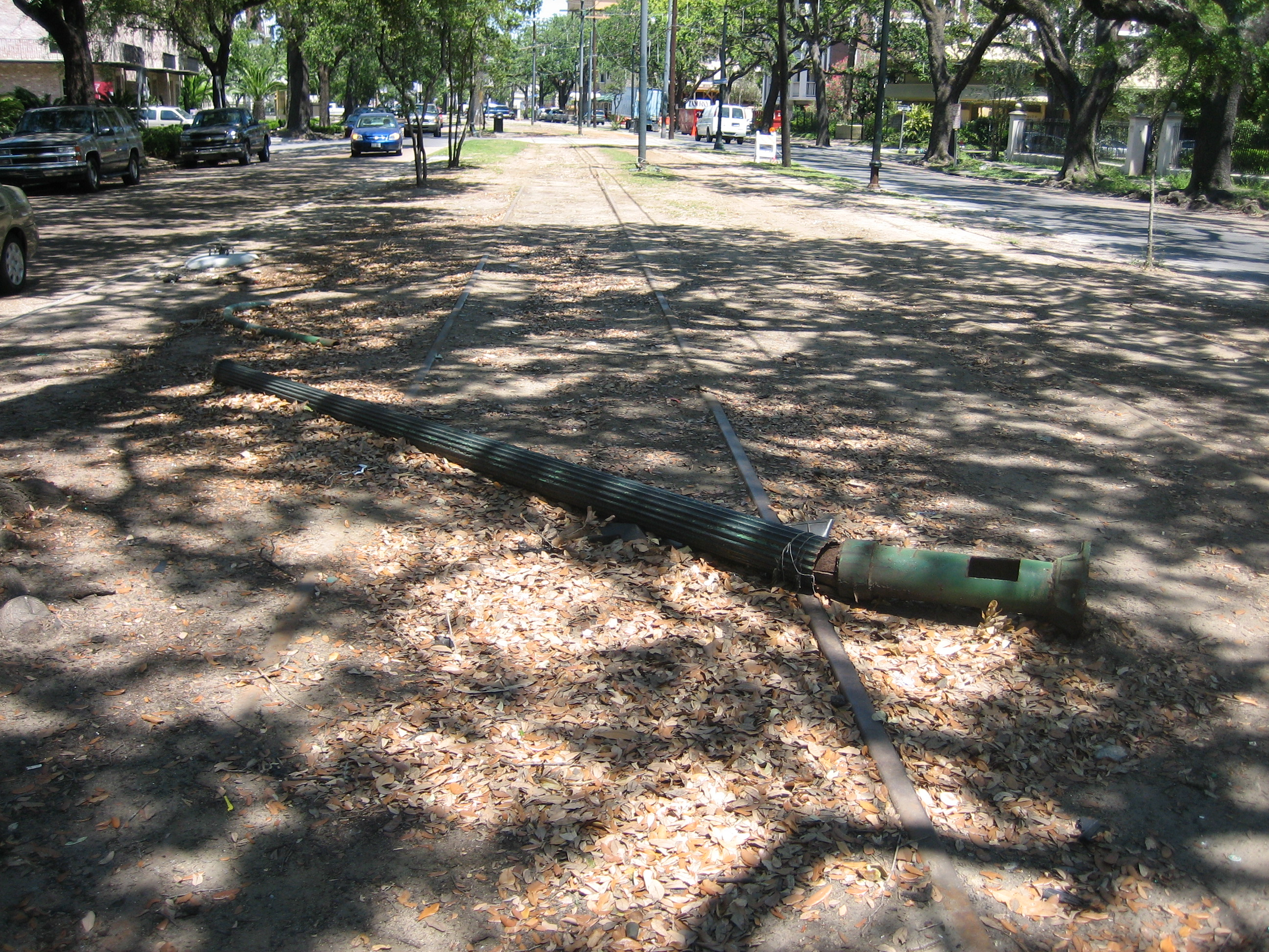 New Orleans: View of St. Charles Avenue, Uptown. Street has long ago been cleared of debris from Hurricane Katrina, but this section of the streetcar tracks in the neutral ground (median) still has fallen electric pole across the tracks.